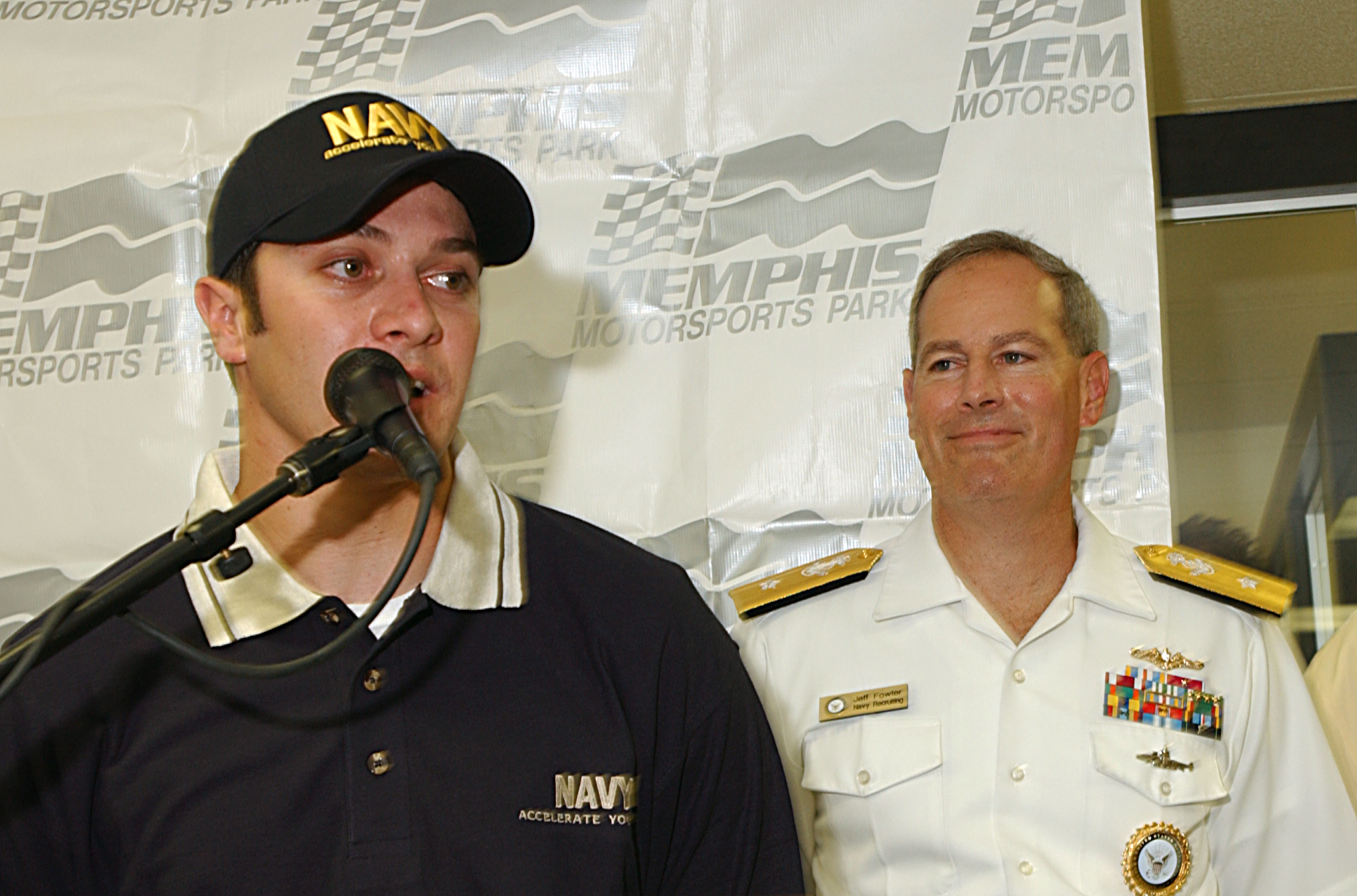 Millington, Tenn. (Oct. 22, 2004) – Commander, Navy Recruiting Command, Rear Adm. Jeff Fowler, right, looks-on as the new driver of the Busch Series “Life Accelerator,” David Stremme, takes questions during a press conference at Memphis Motor Sports Park. Fowler announced that the Navy would extend its partnership with NASCAR and FitzBradshaw for the 2005 season. With this contract renewal, the Navy will be a primary sponsor for a second full season. Stremme, the 2003 Busch Series Rookie of the Year, will take the wheel in the Dodge Charger. U.S. Navy photo by Chief Photographer’s Mate Chris Desmond (RELEASED)